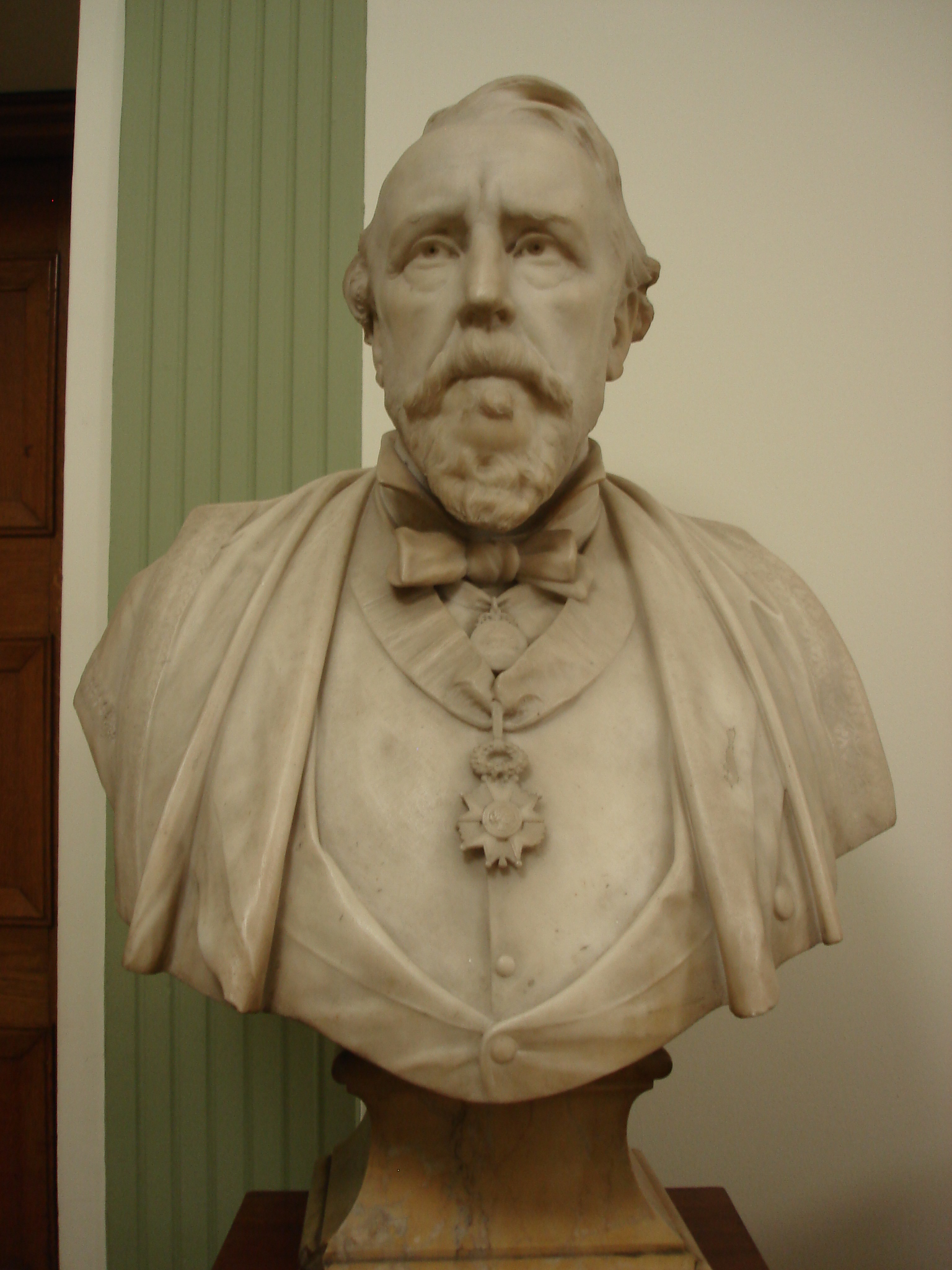 Bust of Sir William MacCormac (1839-1901)